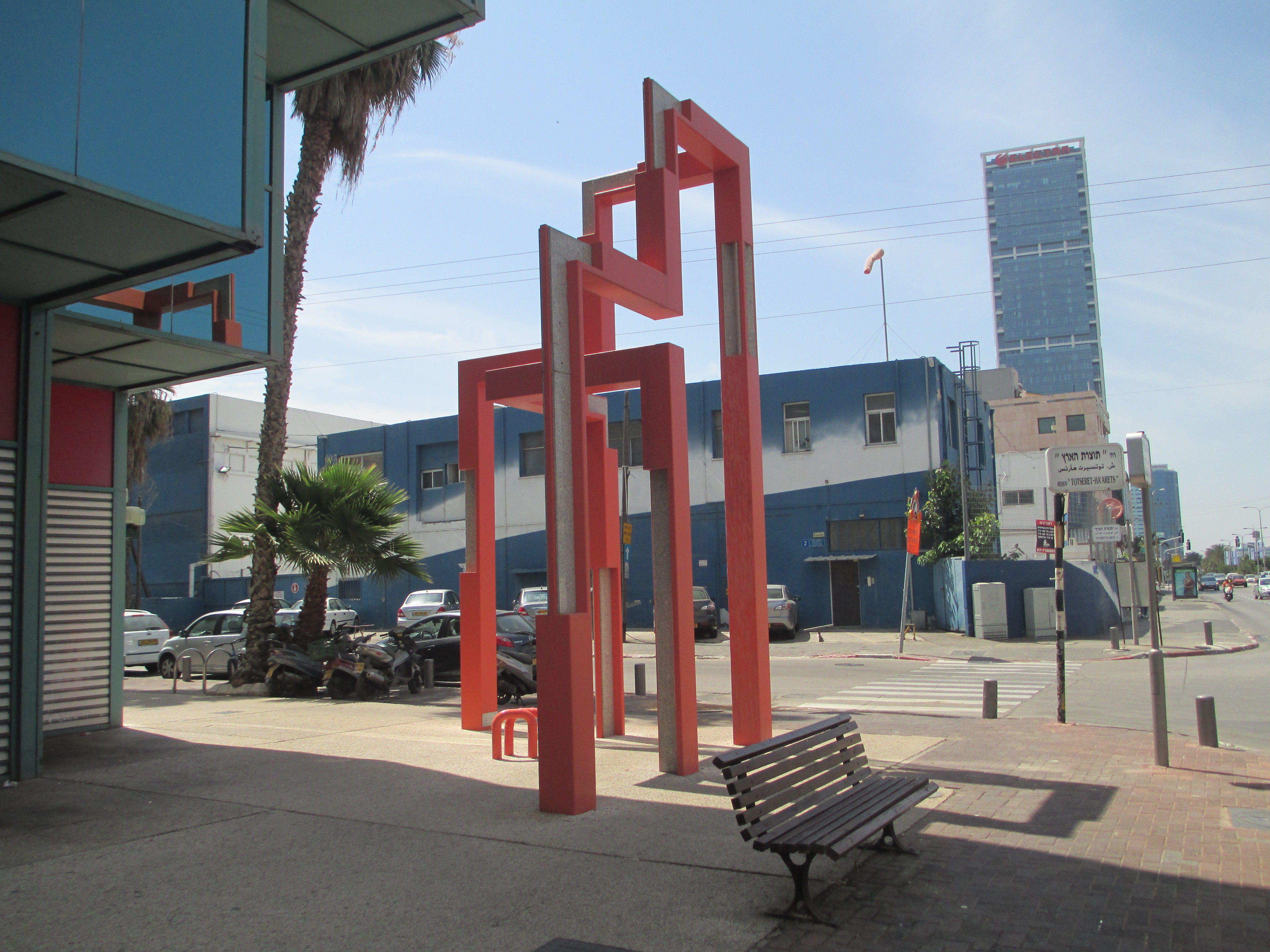 Structure by Israel Hadany in Tel Aviv